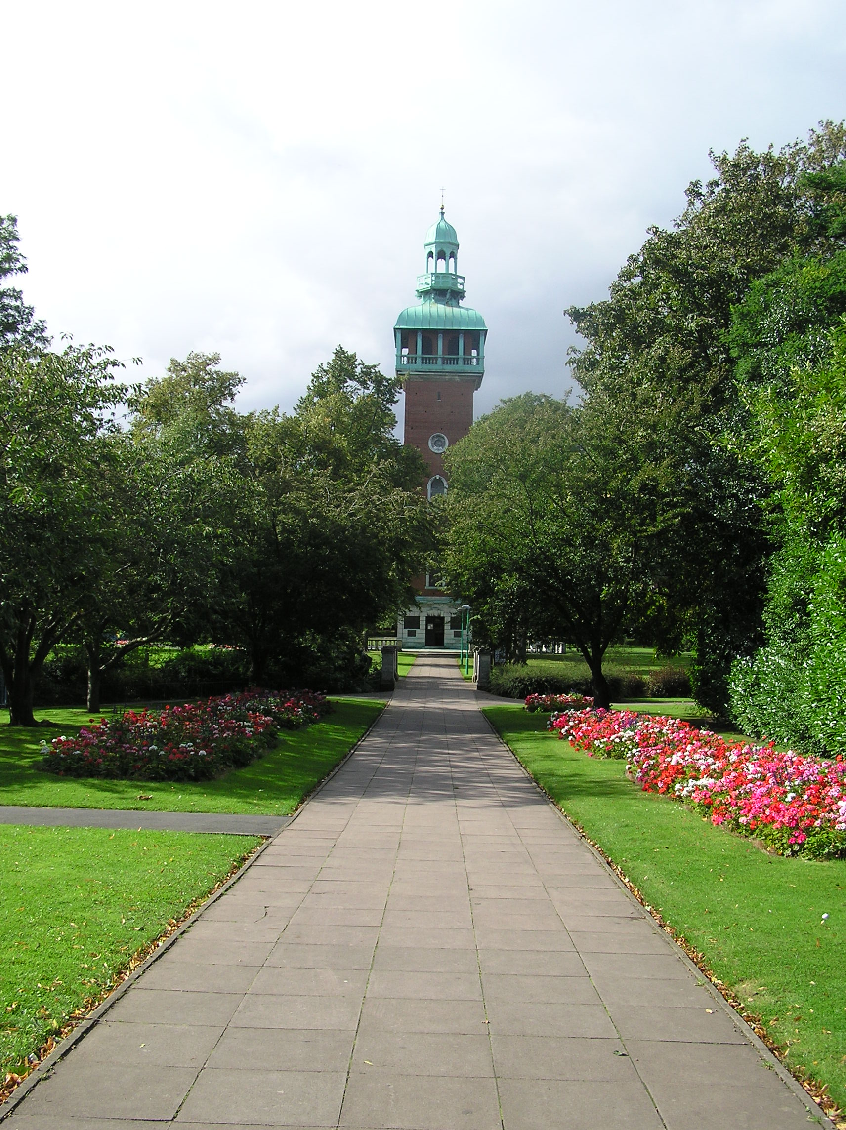 photo I took earlier today 13 September 2004 about 15:00 or so.